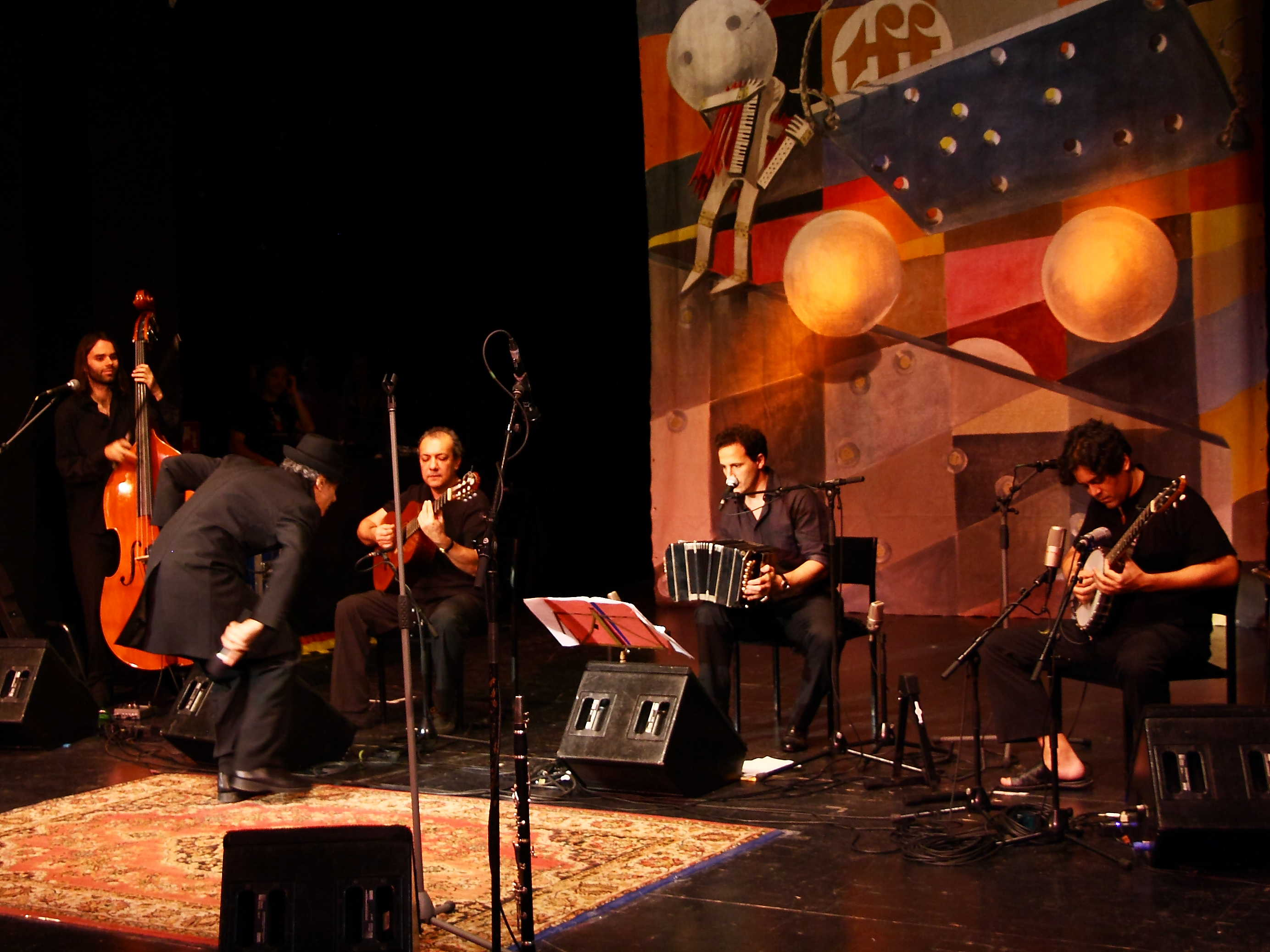 Tangosinger Daniel Melingo & Los Ramones del Tango at tff-Rudolstadt 2010.